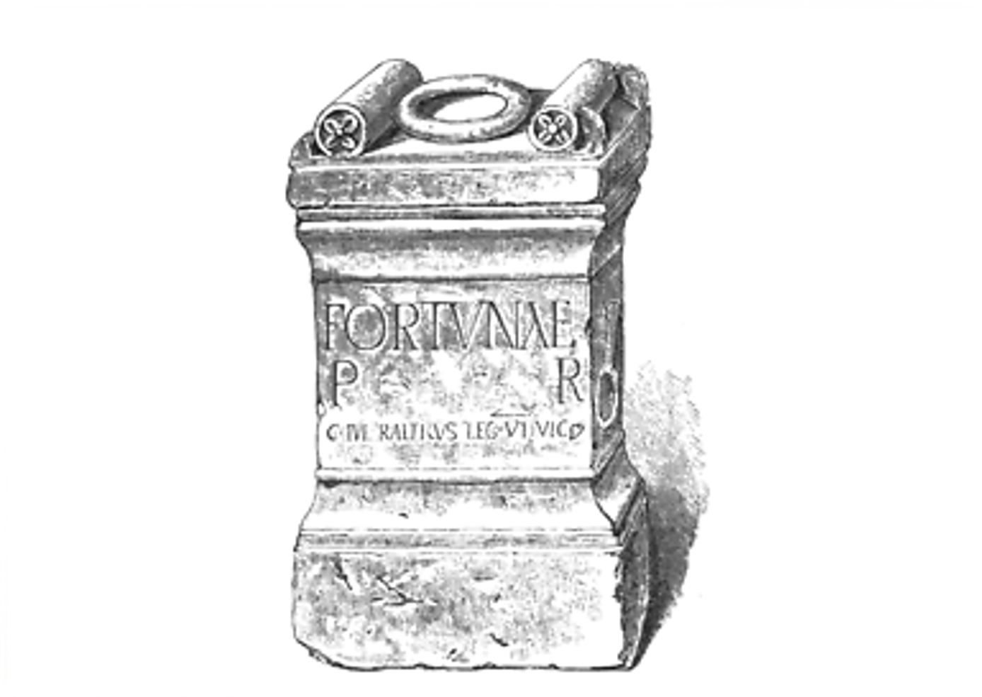 Altar dedicated to the Fortune of the Roman People and Gaius Julius Raeticus, centurion of the Sixth Legion Victrix. Find 1717 in a hypocaust inside Vindolanda fort. Formerly in the Chapter Library, Durham, now (1995) in the Museum of Archaeology, Durham.